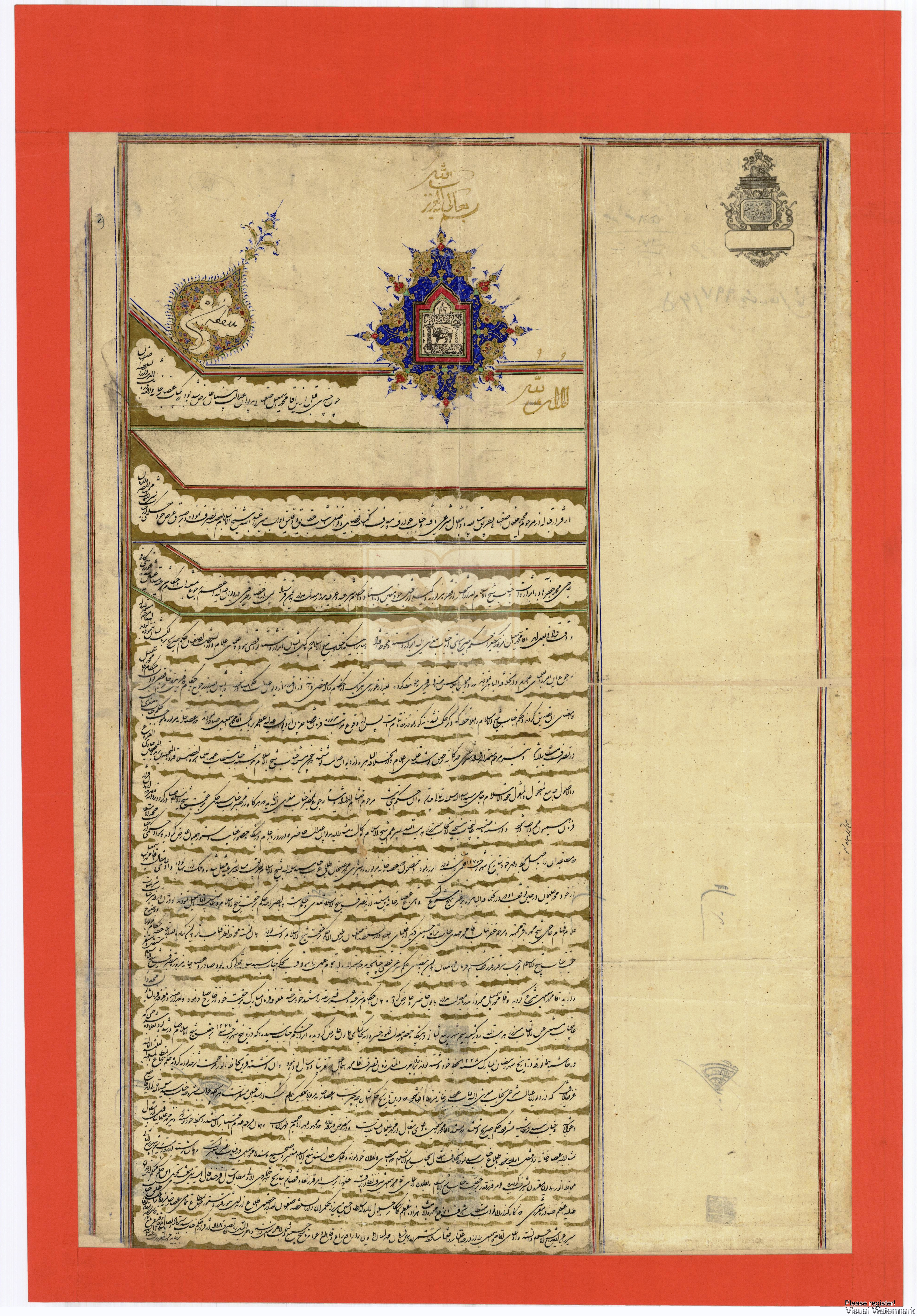 State Paper- Order / Firman to the Governor of Esfahan on the dispute over the ownership of an Oil Extractor Workshop between Agha Mohammad Esmaeil and Mirza Abdollah Sheikholeslam. The verdict was in favour of Mirza Abdollah Sheikholeslam (1863-1279 A.H.) National Library and Archives of I.R of Iran Registered Number: 997/65